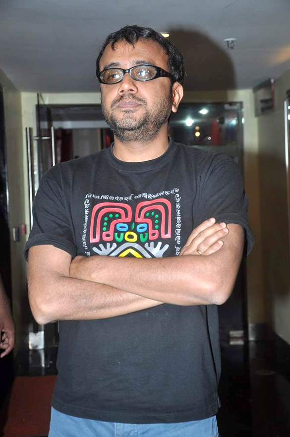 Dibakar Banerjee Promotions of 'Shanghai'